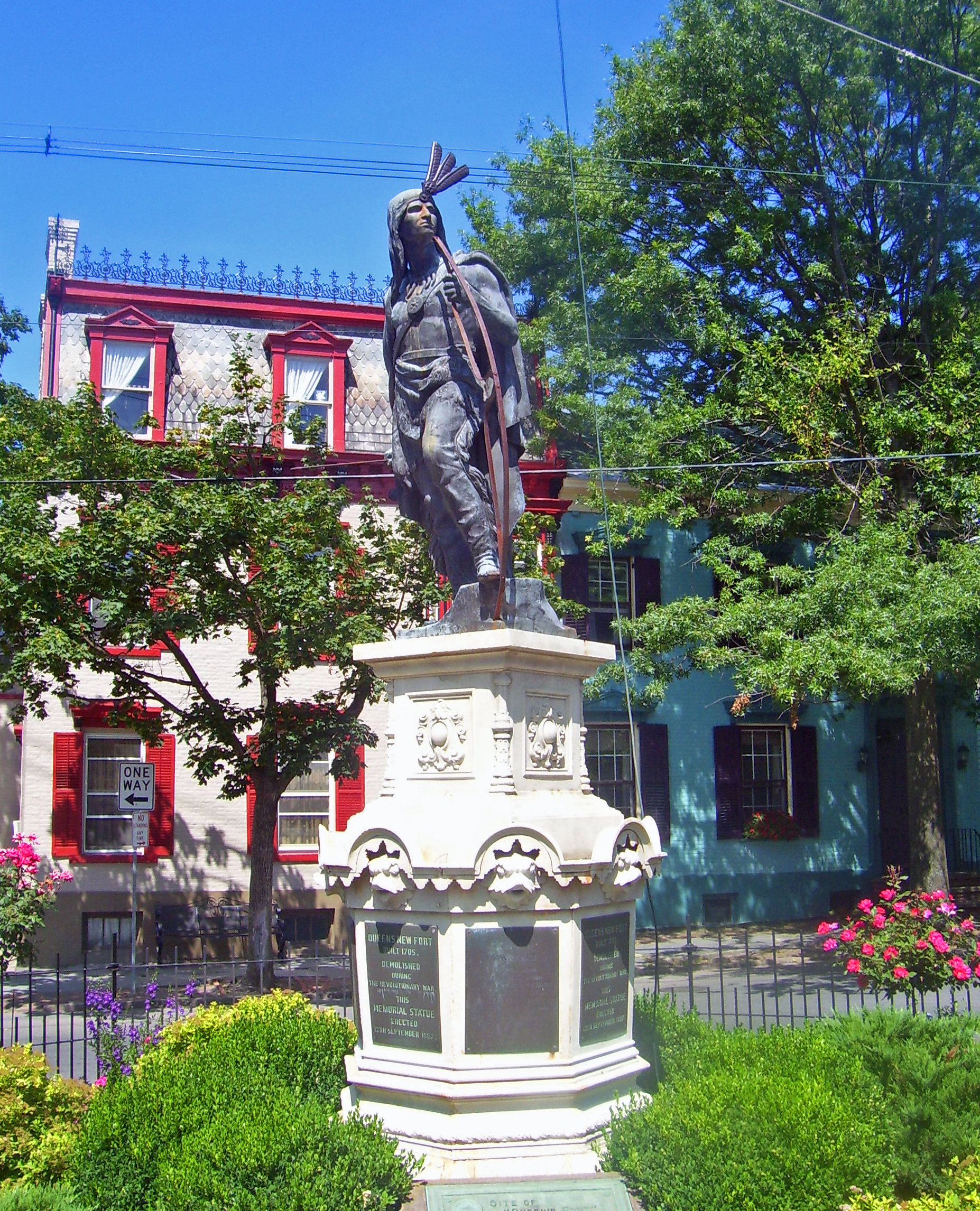 Statue of Lawrence the Indian, savior of Schenectady, NY, USA, at the center of the city's Stockade Historic District.